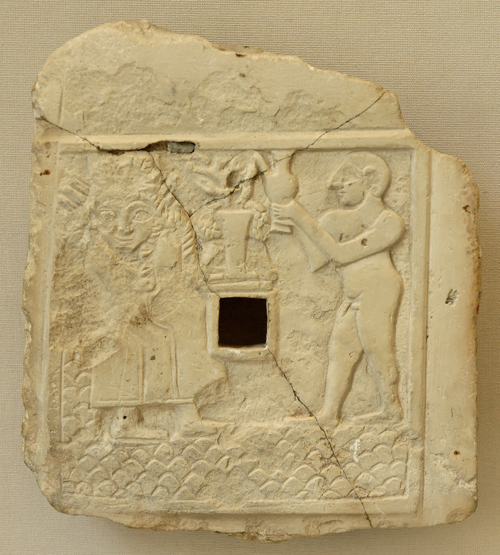 Votive relief: libation to a vegetation goddess. Limestone, Early Dynastic III (ca. 2500 BC), found in Telloh (ancient Girsu).